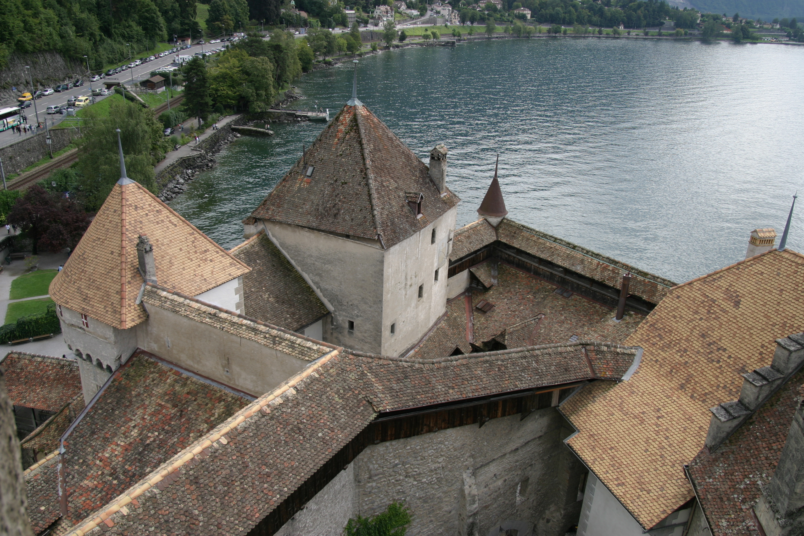 Castel of Chillon